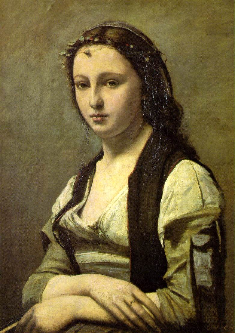 Portrait of Berthe Goldschmidt